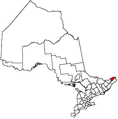 i made this